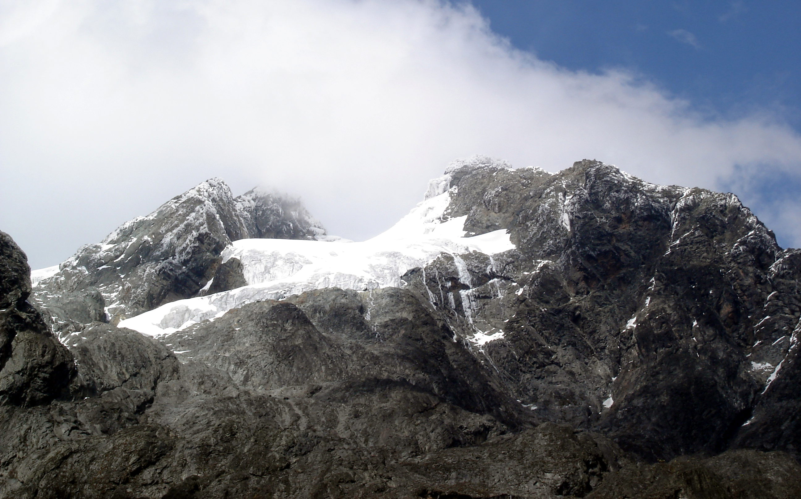 Margherita Peak (Mt. Stanley) as seen from Central Circuit in Uganda (between Bujuku Hut and Scott Elliott Pass)